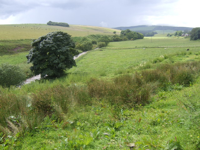 Valley of Bervie Water The burn is well up with storm flow from the previous days heavy rain - more was to come later!